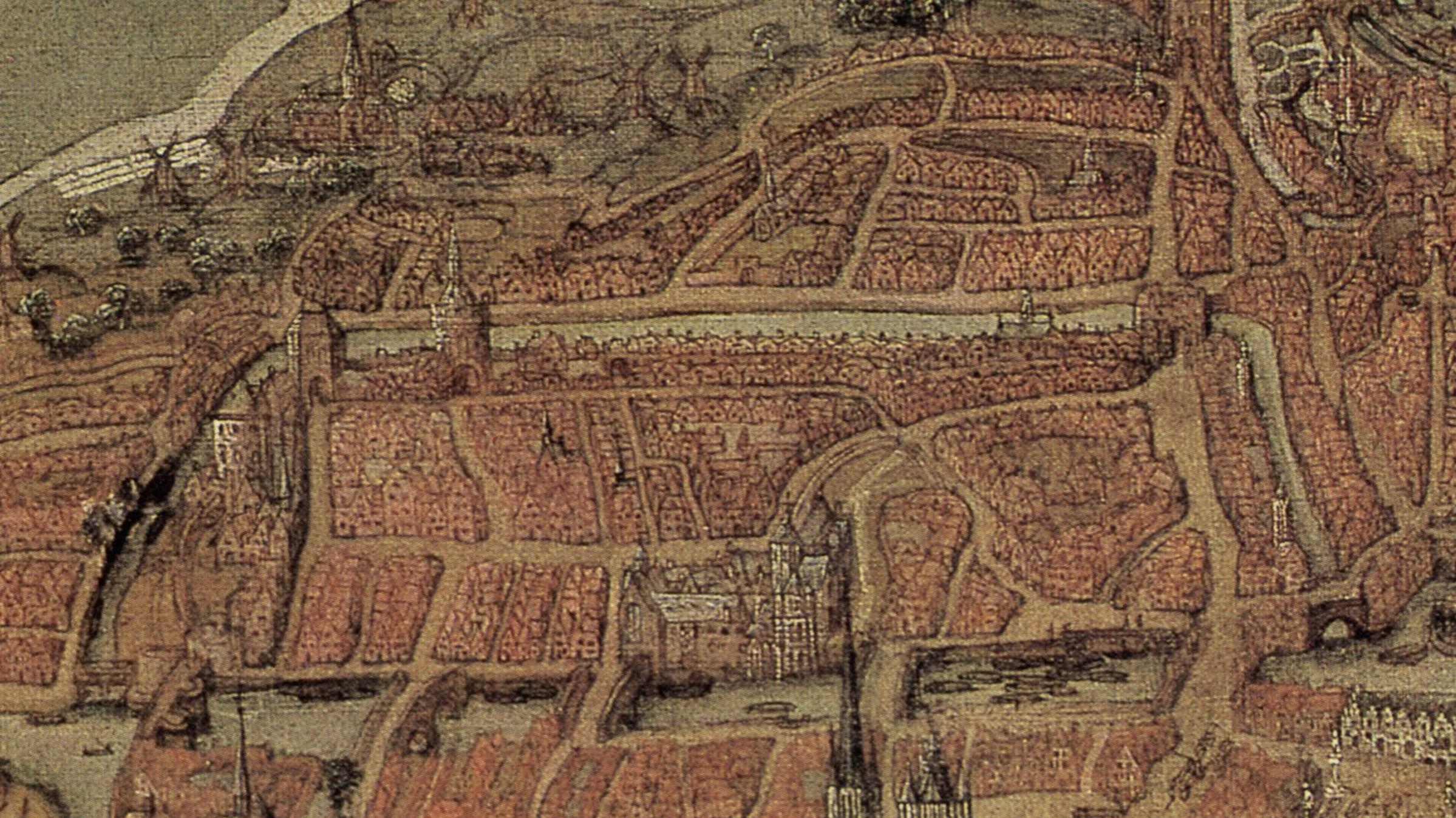 Ghent,_1534,_Houtlei.jpg